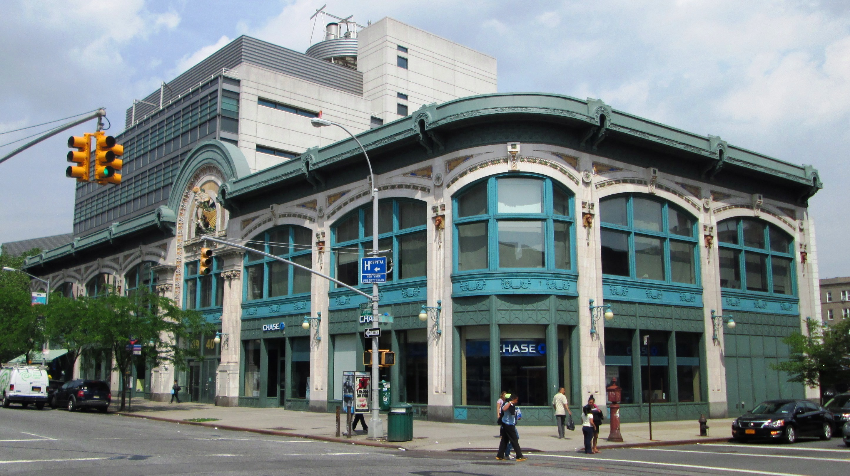 =The Audubon Theatre and Ballroom, generally referred to as the Audubon Ballroom, was a theatre and ballroom located at 3490 Broadway at West 165th Street in the Washington Heights neighborhood of Manhattan, New York City. It was built in 1912 and was designed by Thomas W. Lamb. The ballroom is noted for being the site of the assassination of Malcolm X's on February 21, 1965. It has been used as a vaudeville house, a movie theatre, a synagogue, and a meeting place for trade unions and political activists. It is currently Columbia University Medical Center's Lasker Biomedical Research Center (background) of the Audubon Business and Technology Center and the Malcolm X and Dr. Betty Shabazz Memorial and Educational Center (foreground).